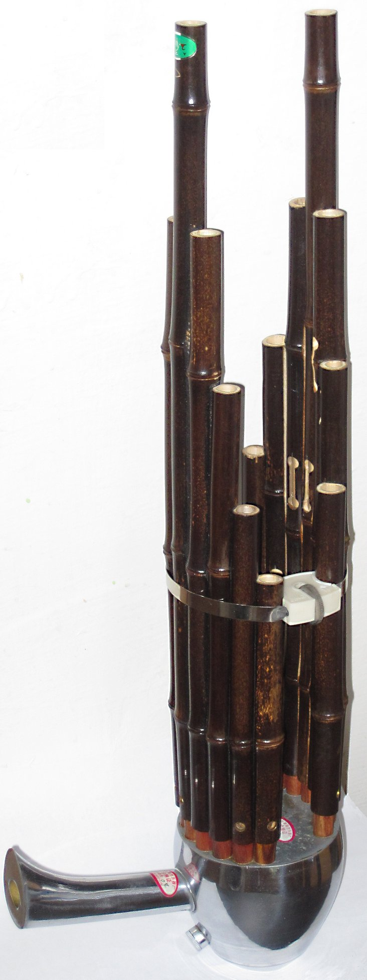 The sheng (Chinese mouth organ) is a free reed wind musical instrument. Height is 55cm (22 inches). It has 17 pipes, each pipe has one reed.